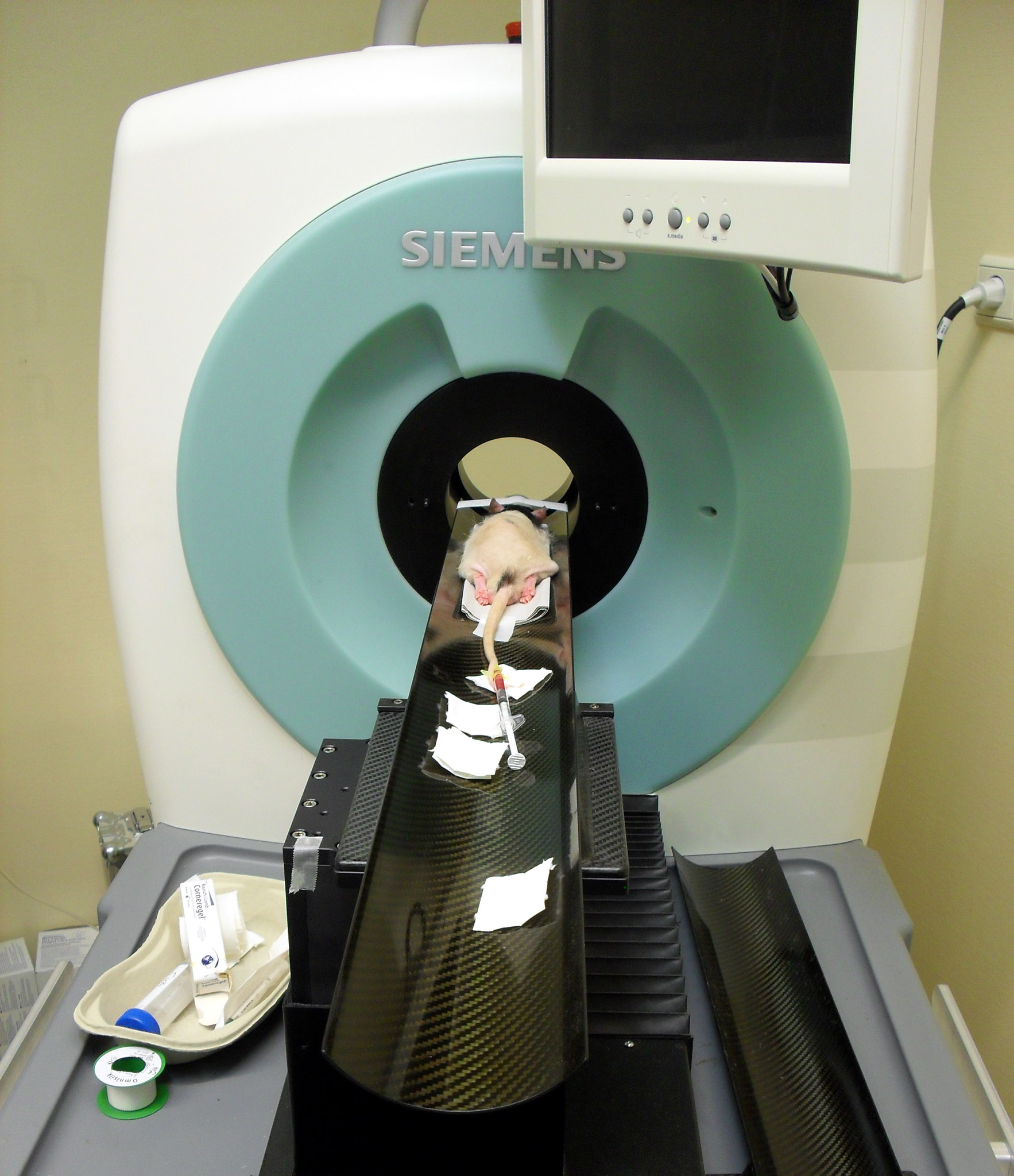 Nude rat (Crl:NIH-Foxn1rnu, Rowett nude rat) in an animal PET (positron emission tomograph), type Inveon from Siemens AG. Special thanks to PD Dr. Walter Mier (University of Heidelberg